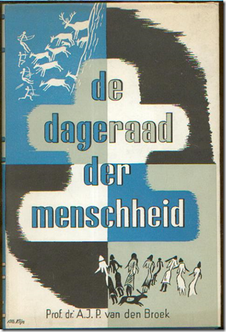 Bookcover by Dutch artist Albert Klijn for Prof. Dr. A.J.P. van den Broek; De Dageraad der Menschheid, Uitgeverij Oosthoek, Utrecht, 1947